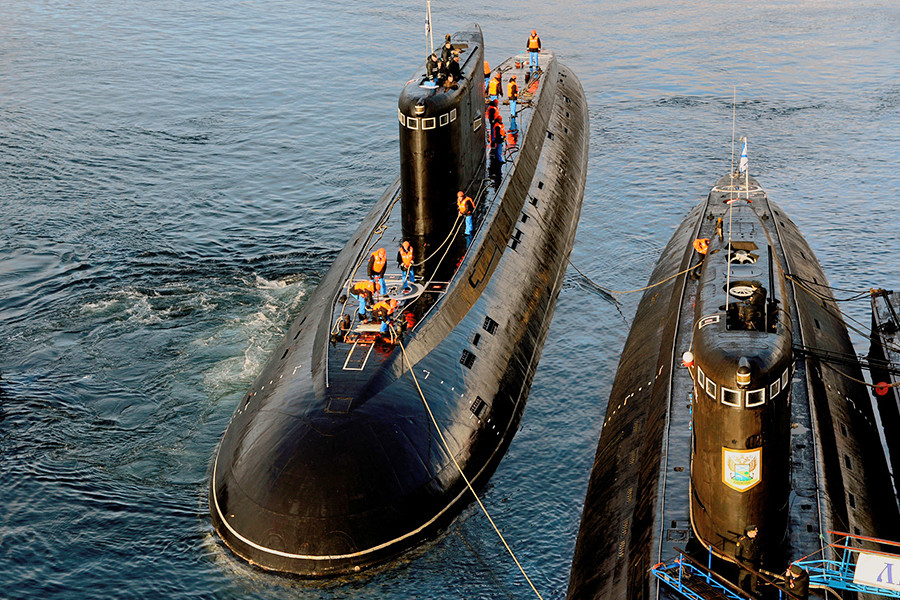 Kaluga and Lipetsk in Polyarniy.